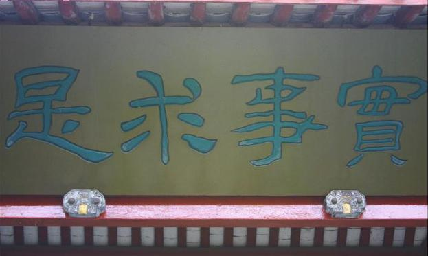 seek truth from facts